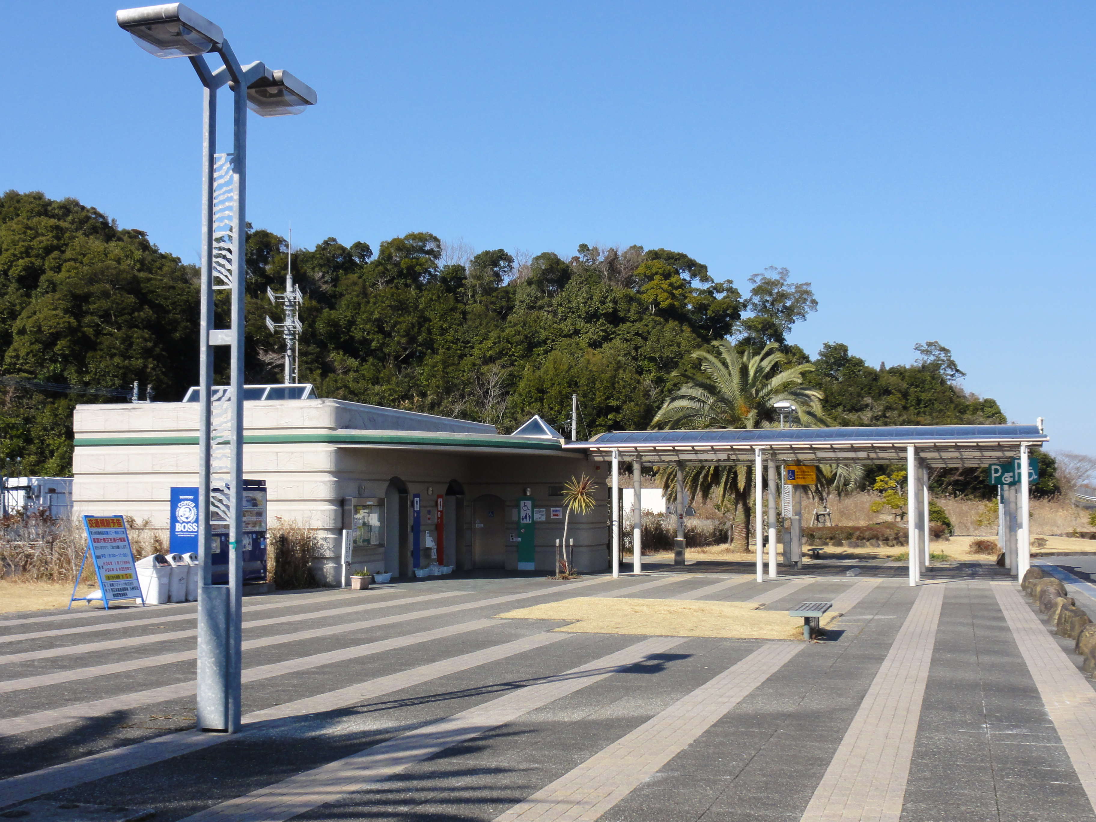 Miyazaki PakingArea ,Miyazaki prefecture, Japan